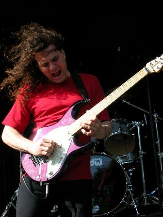 Vinnie Moore